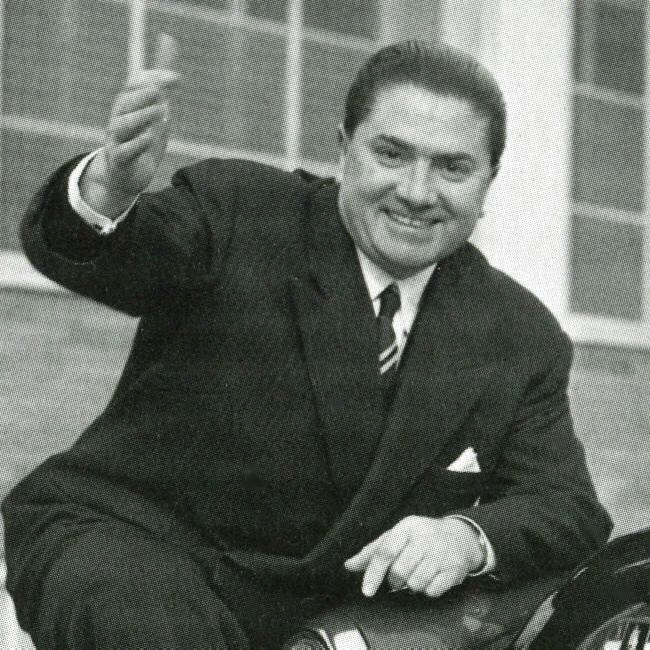 Italian automotive designer and coachbuilder Mario Boano